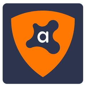 Avast SecureLine logo